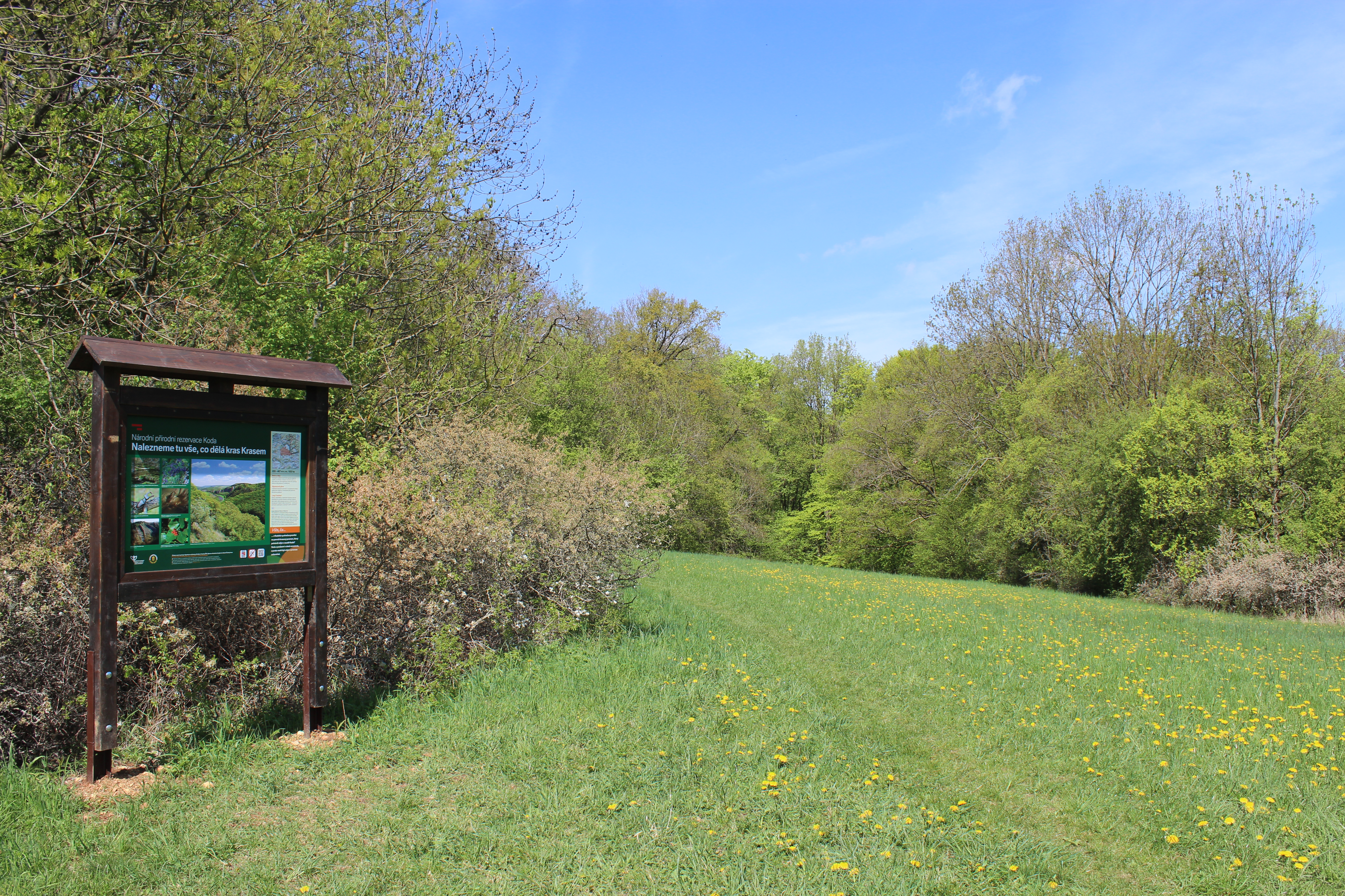 Koda, Beroun District